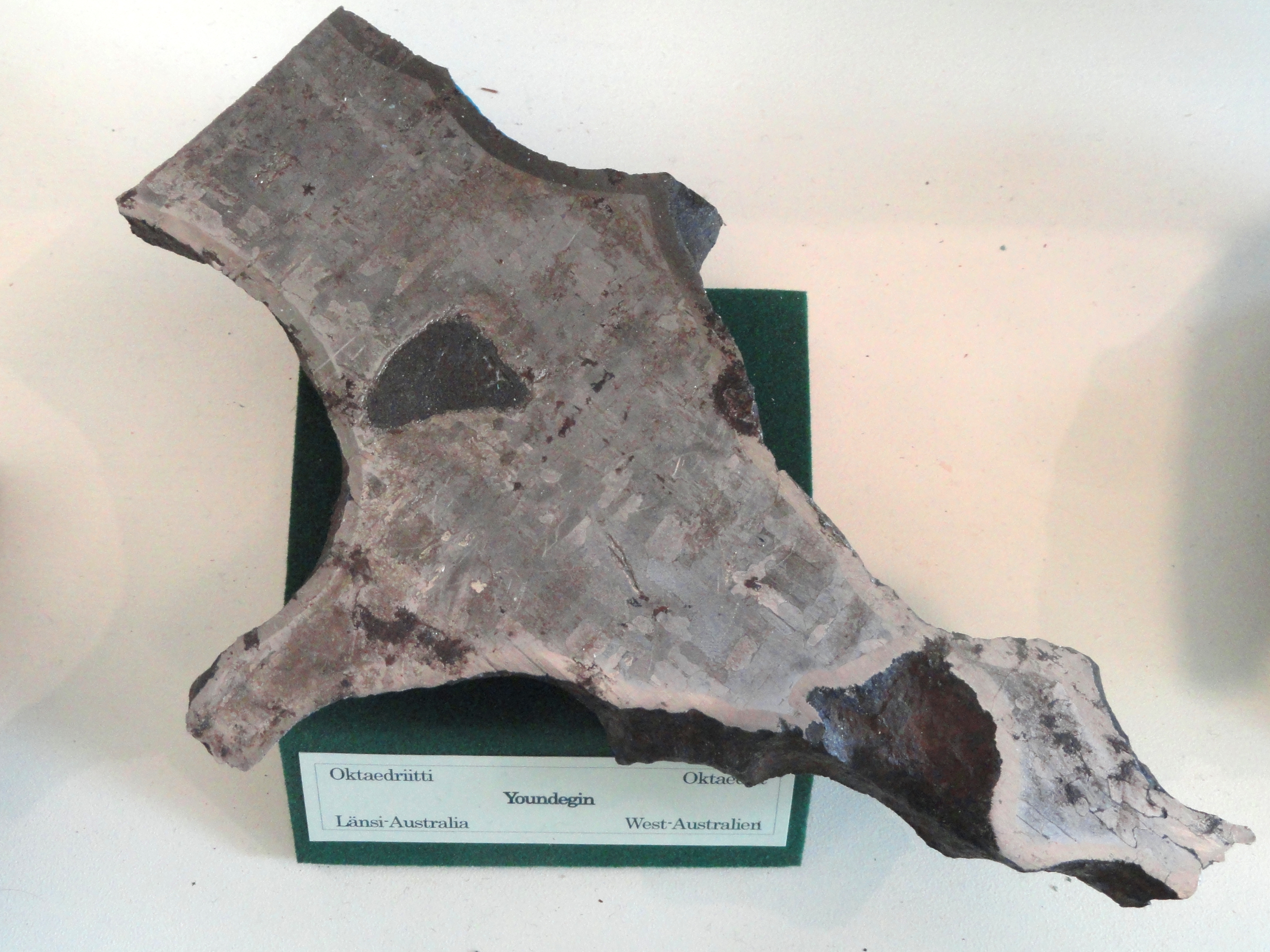 Youndegin meteorite. Exhibit in the Arppeanum, Helsinki, Finland.